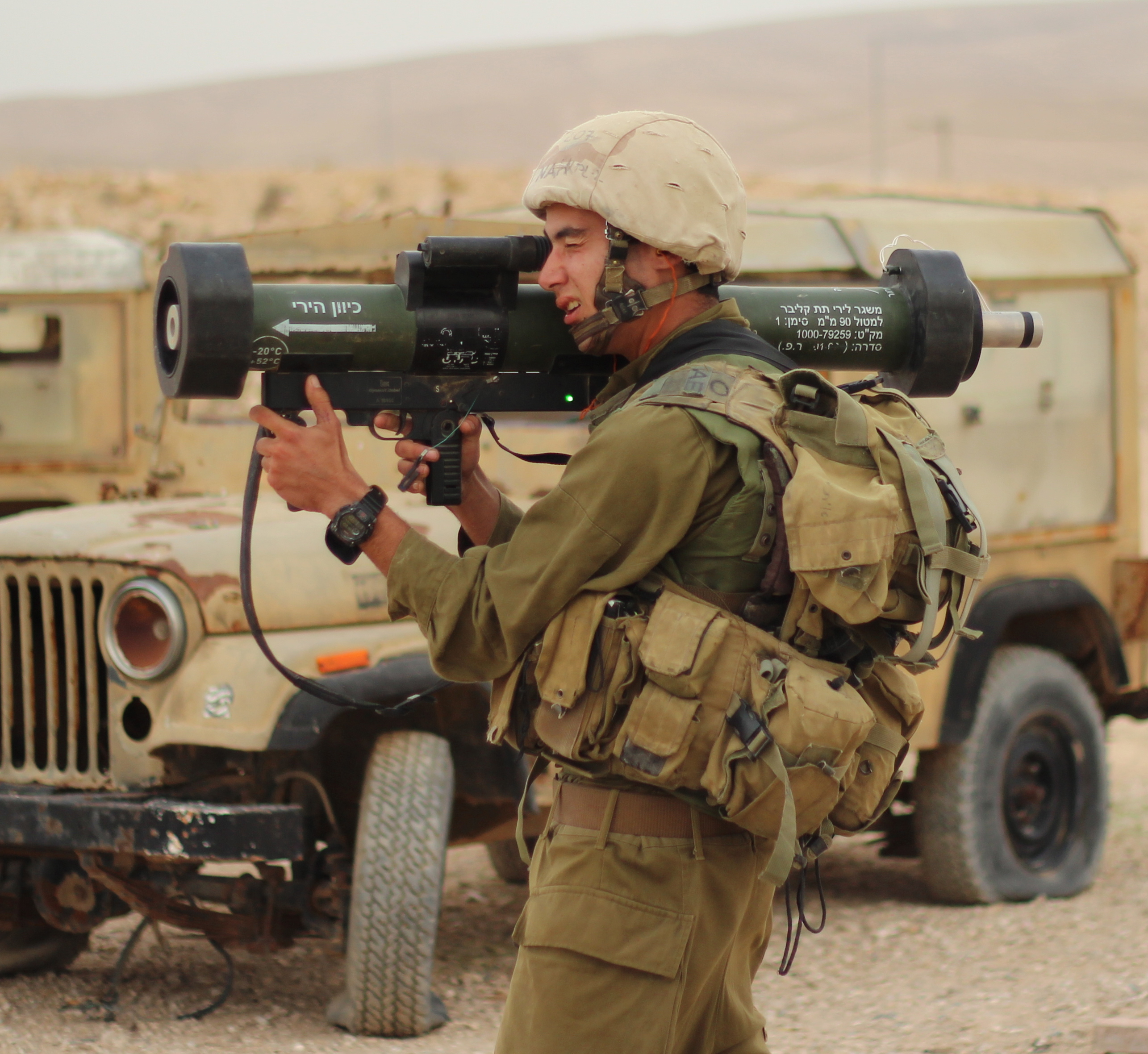 December 4, 2012 Nahal's Special Forces conducted a firing drill in southern Israel with a range of different weapons. The firing course was part of their advanced training where they learn to specialize in a certain firearm. Photo by Zev Marmorstein, IDF Spokesperson's Unit For more from the IDF